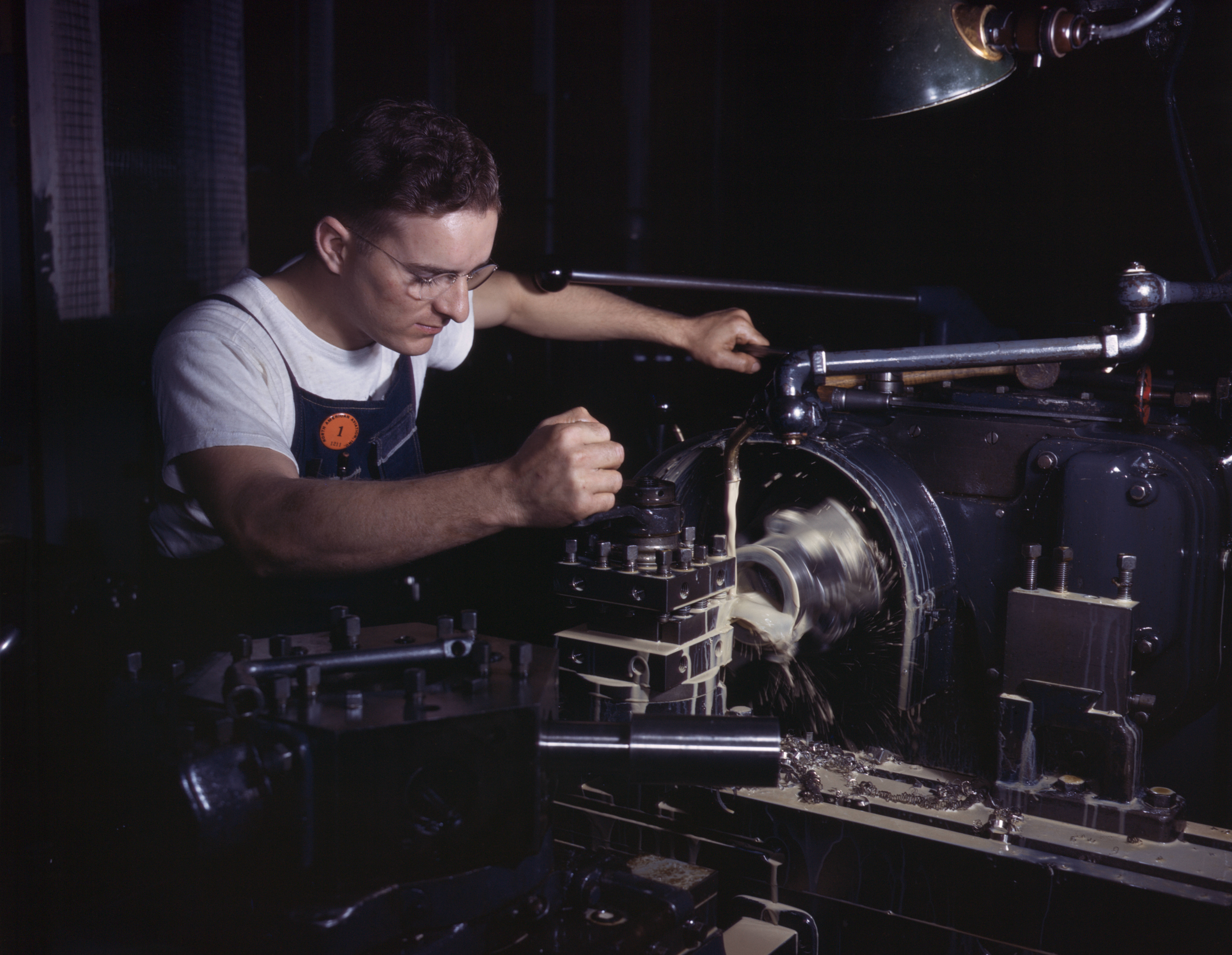 In North American's modern machine shop, another aircraft part is finished on a huge turret lathe, North American Aviation, Inc., Inglewood, Calif.